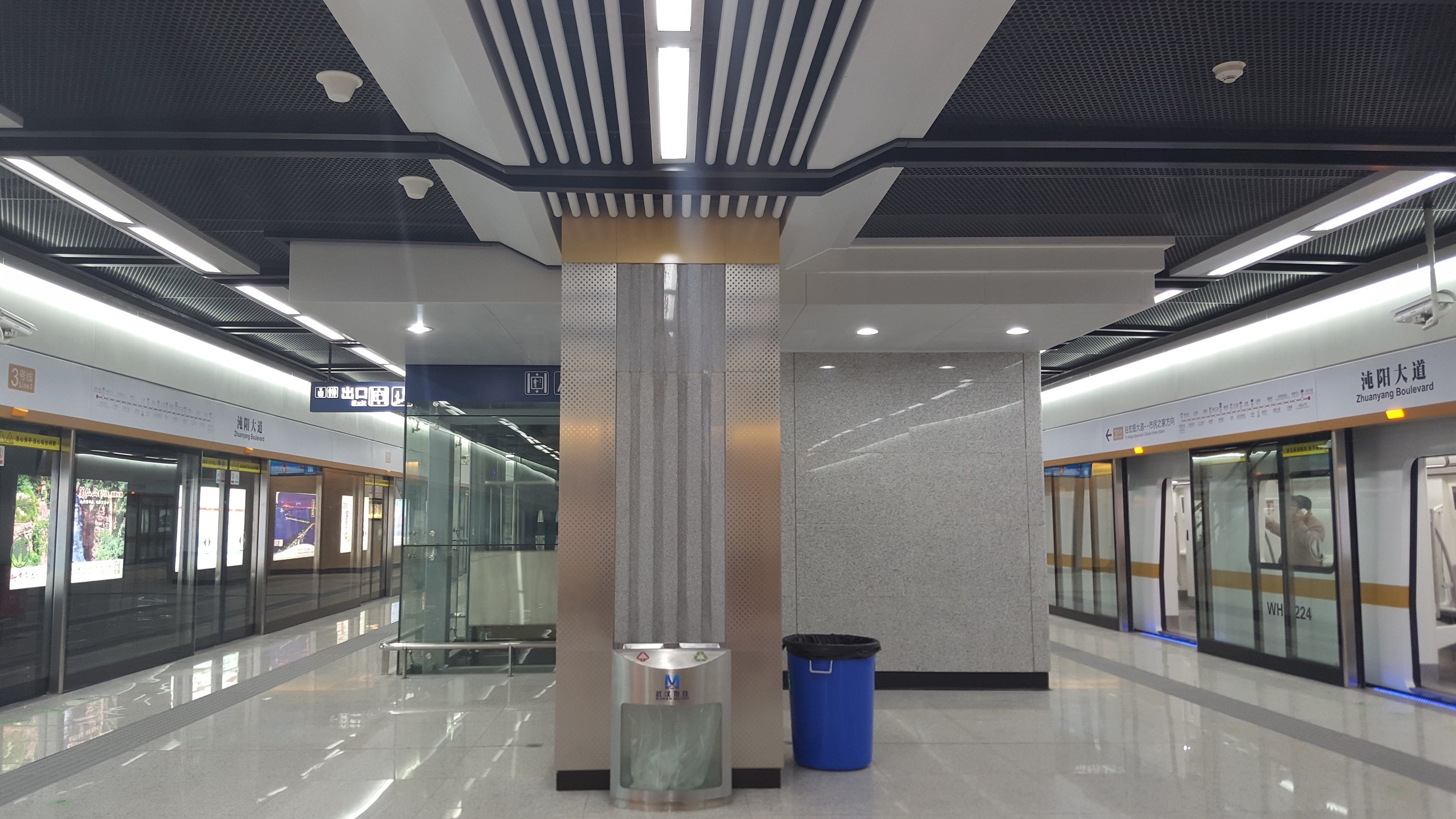 Platfrom of Zhuanyang Boulevard Station, Wuhan Metro